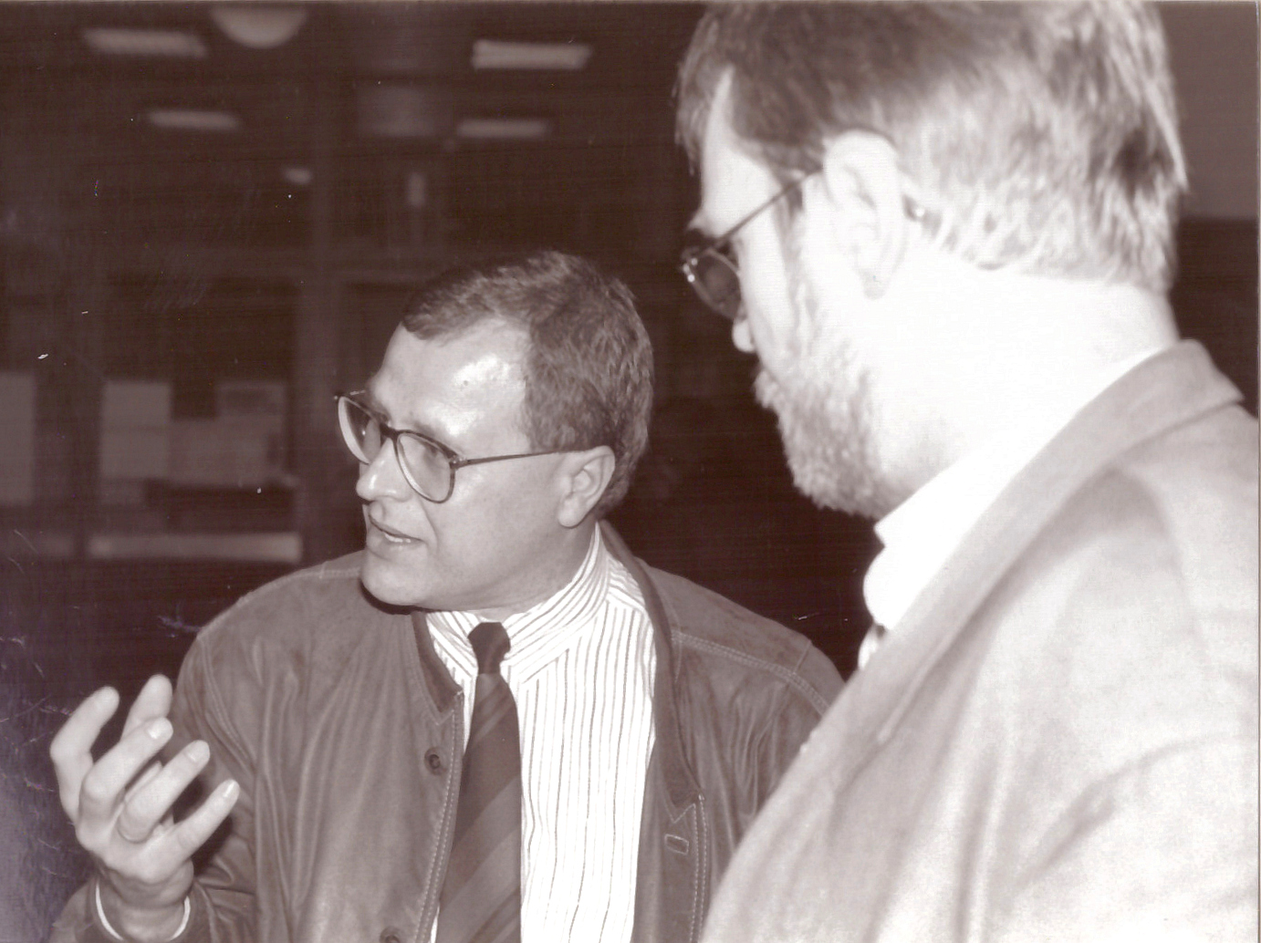 Sociologists Hans-Peter Blossfeld (l.) and Peter A. Berger at the German Sociology Congress at Frankfurt in 1990